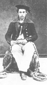 Photo of a swabbie in a monkey jacket, circa mid to late 19th century.